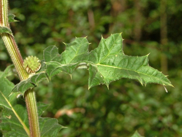 Echinops sphaerocephalus - Val Noci, Genova, Italy